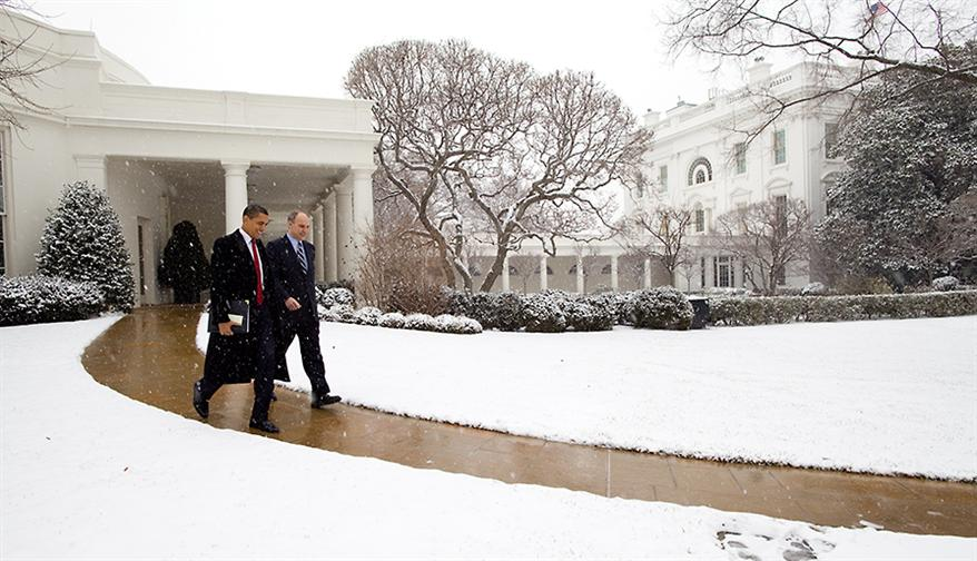 President Barack Obama leaves the White House with his legislative affairs director Phil Schiliro en route to the U.S. Capitol to meet with the Republican caucuses.